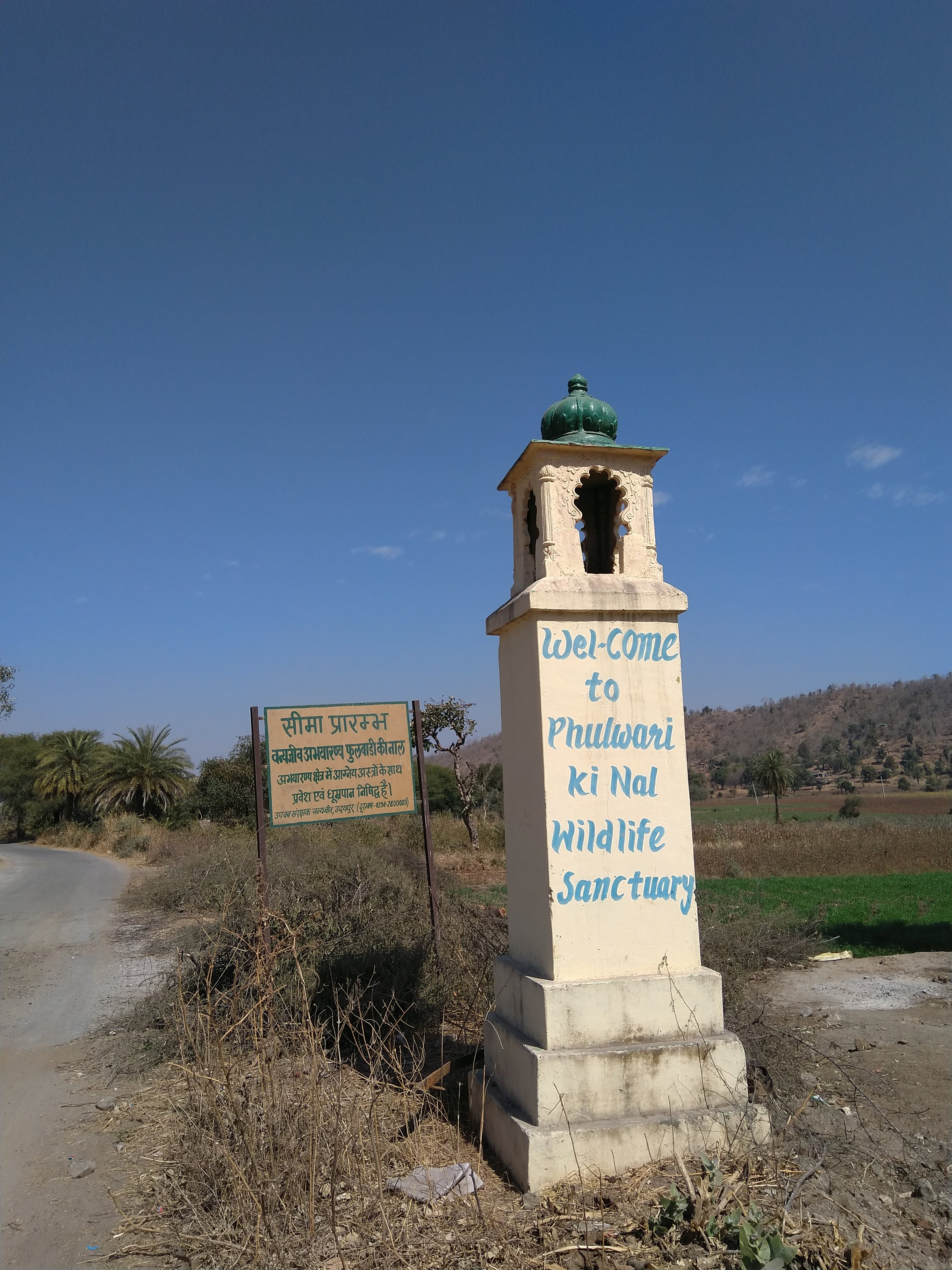 The approximate location of this marker is 24.154552, 73.132718